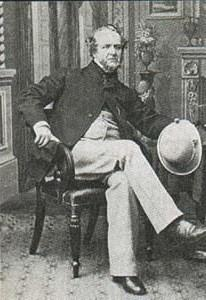 source - author - unknown, circa 1860 image of Howard Staunton (1810-1874)